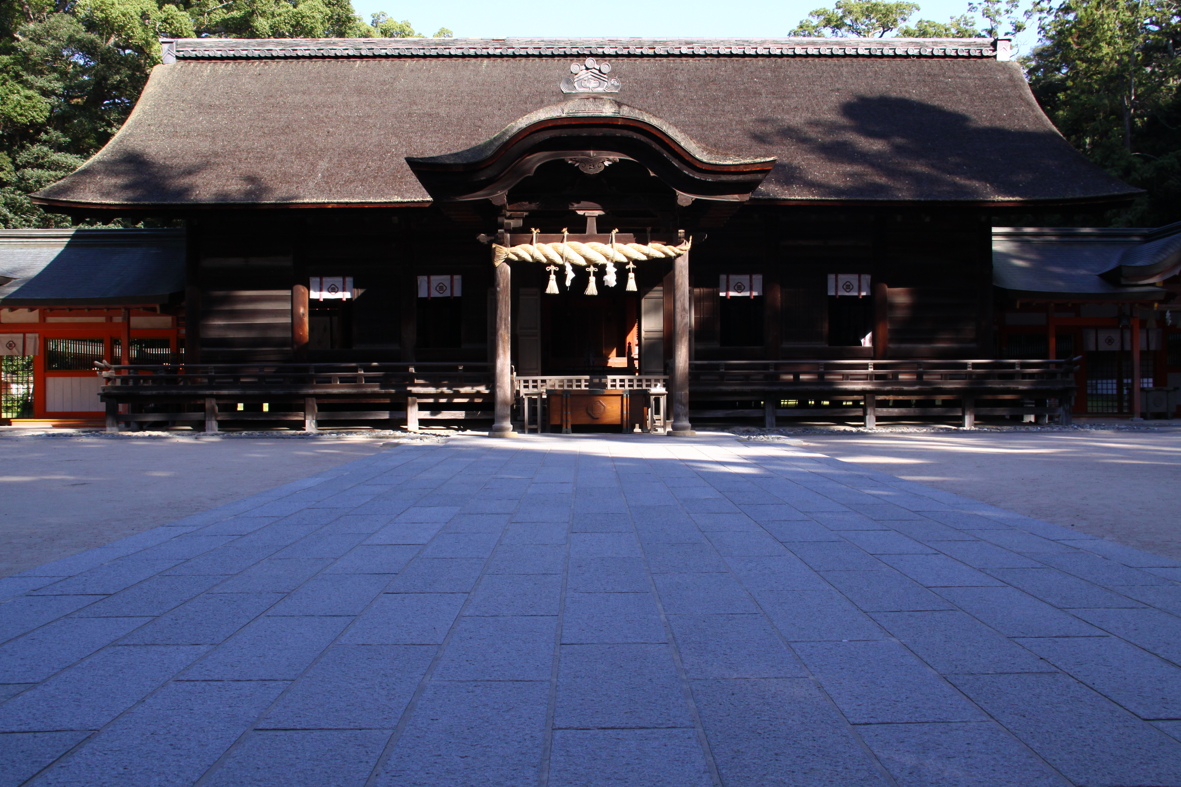 Ooyamazumi-jinja Haiden